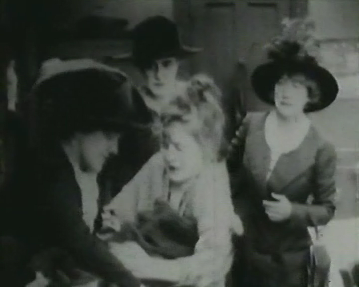 Scene from the movie Intolerance. 1916.